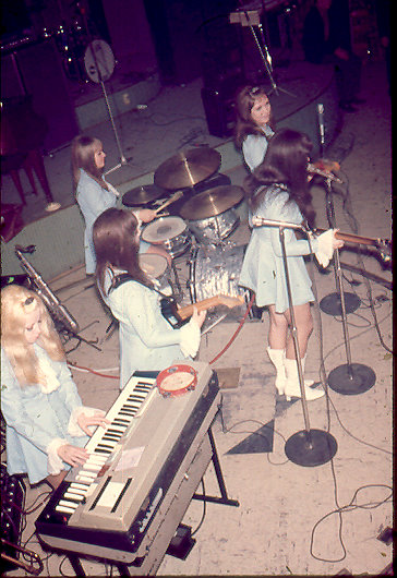 Image of Norwegian girl-band Dandy Girls, being active 1964-1969. Picture is from a concert in Japan in 1968.